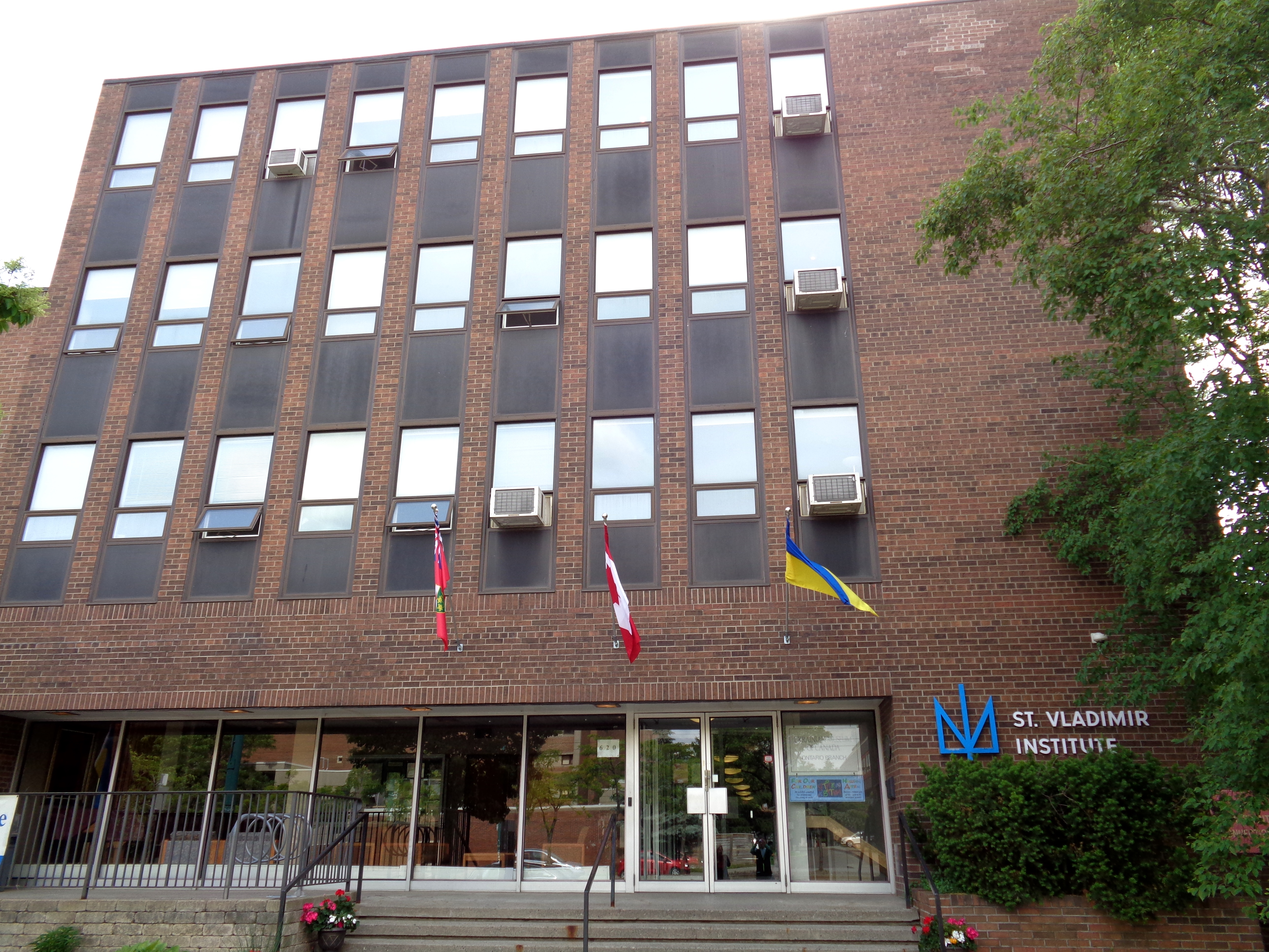 St. Vladimir Institute, Toronto